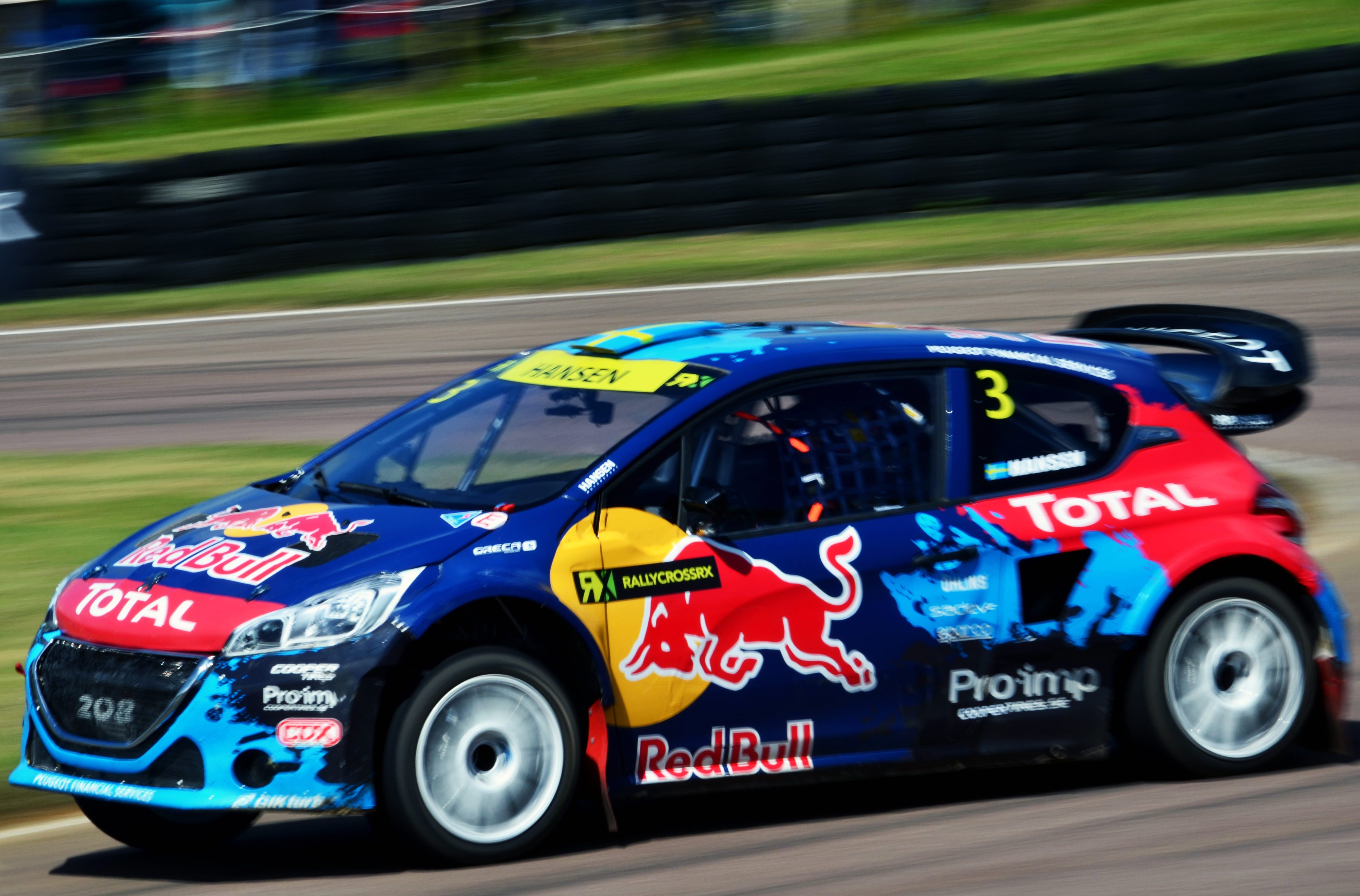 Swedish rallycross driver Timmy Hansen in his Peugeot 208 T16 Supercar, at Lydden Hill for round 2 of the 2014 FIA World Rallycross Championship.